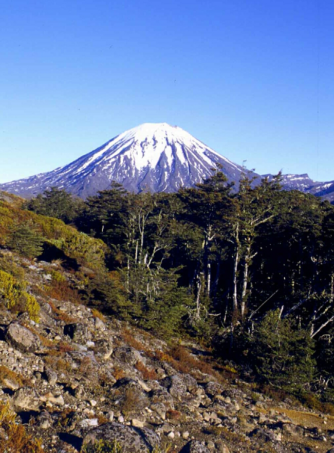 Nothofagus, the southern beech, on the slopes of Mt. Ruapehu in New Zealand